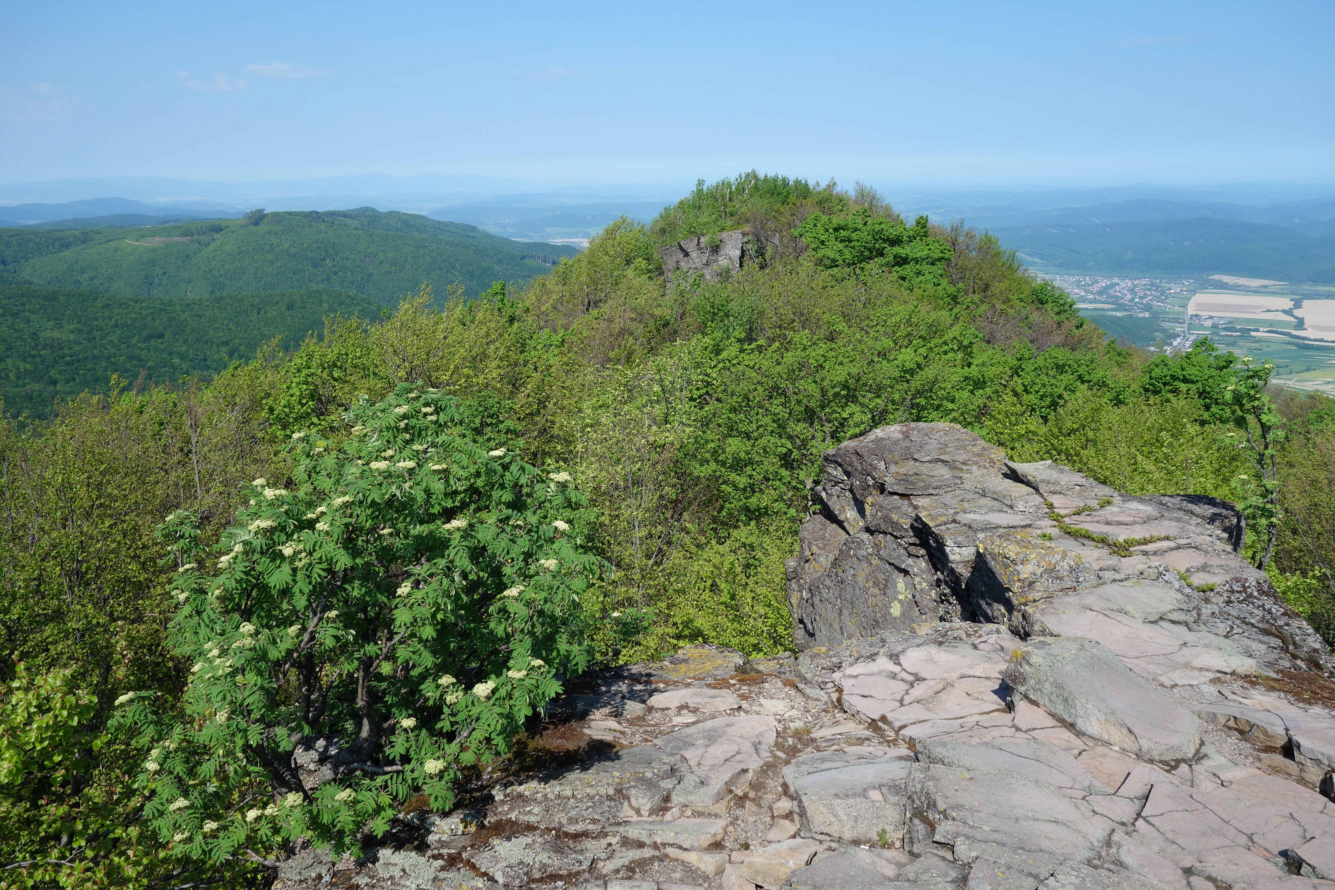 View of the Big Sninský kameň from the Small Sninský kameň This is a photography of Natura 2000 protected area with ID SKUEV0209